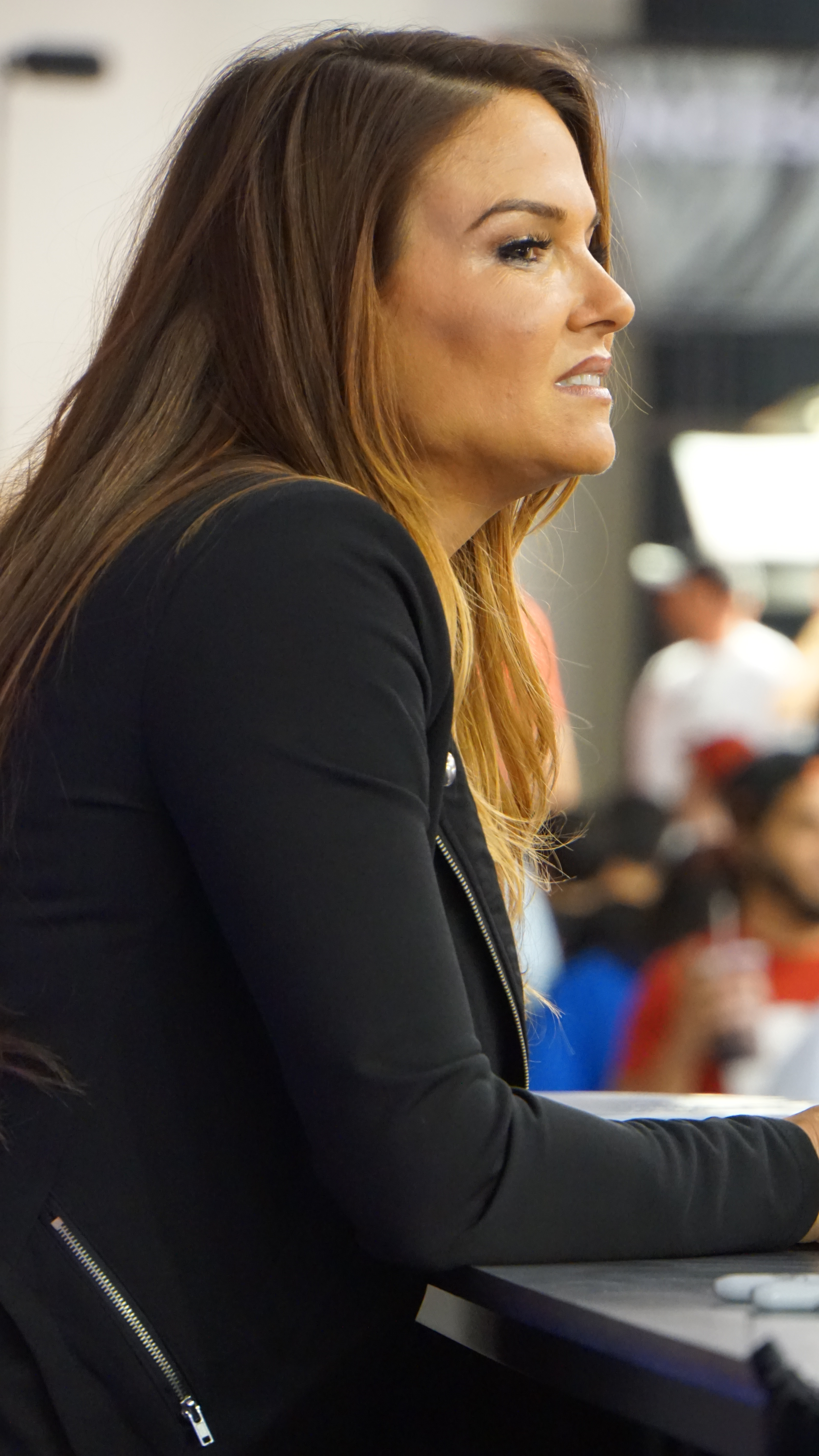 Lita, at WWE's WrestleMania 31 Axxess on March 26, 2015